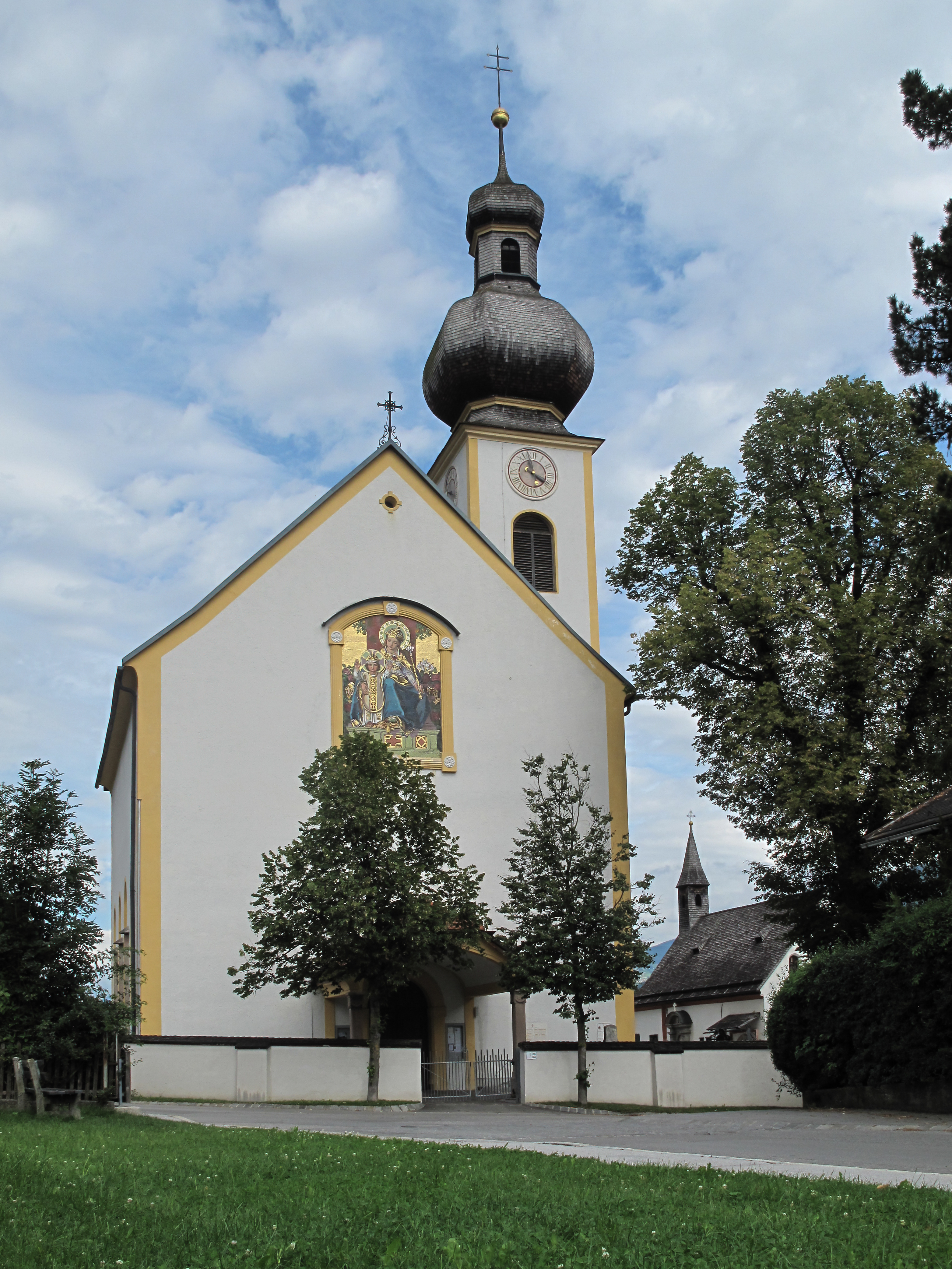 Mils, church: Katholische Pfarrkirche Mariä Himmelfahrt